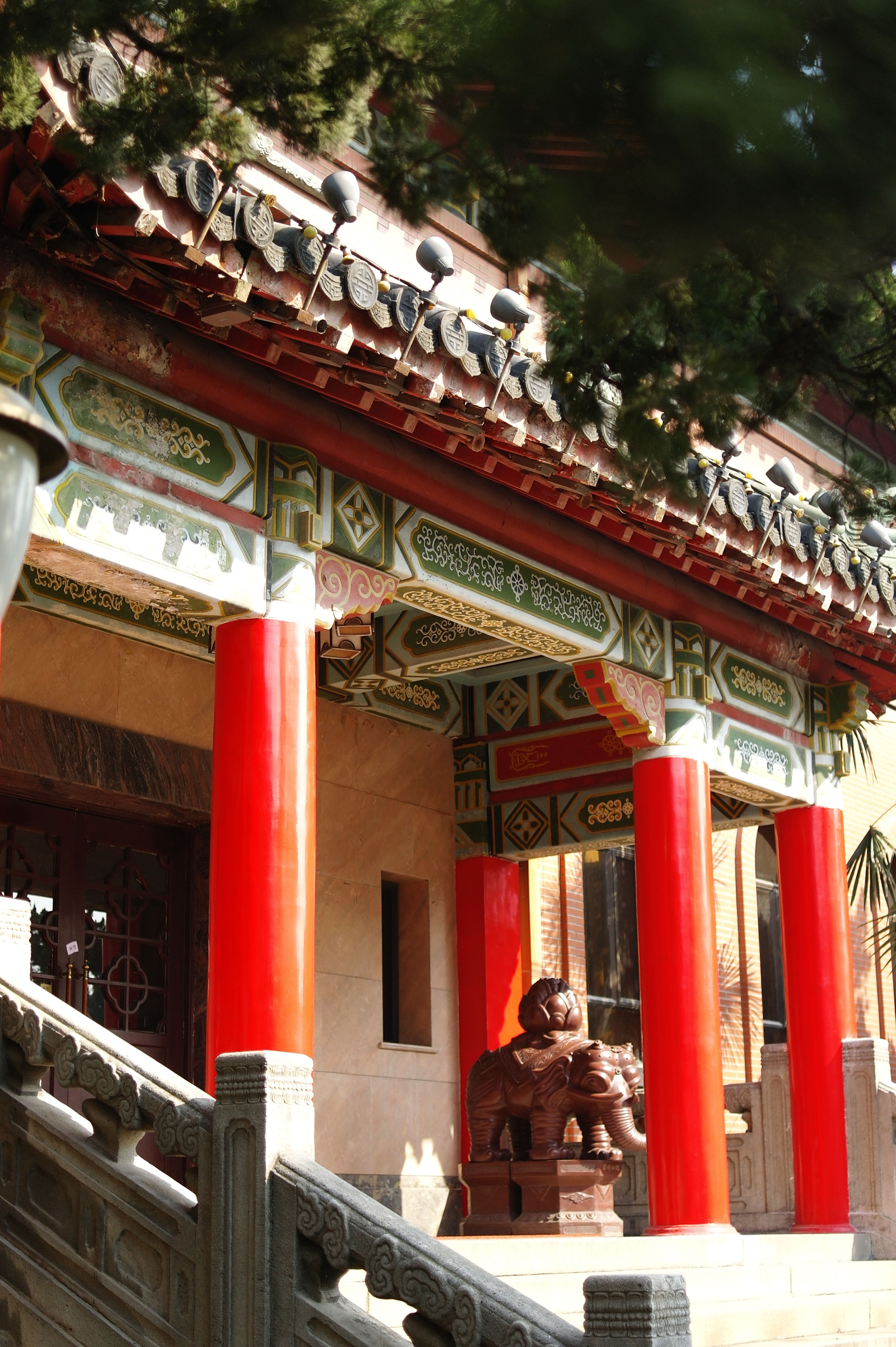 The exterior of Lizhishe in Nanjing. A building dated from the period of Republic of China.